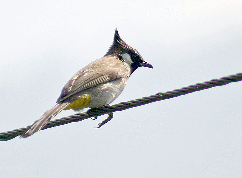 Himalayan Bulbul Pycnonotus leucogenys in Kullu District of Himachal Pradesh, India.